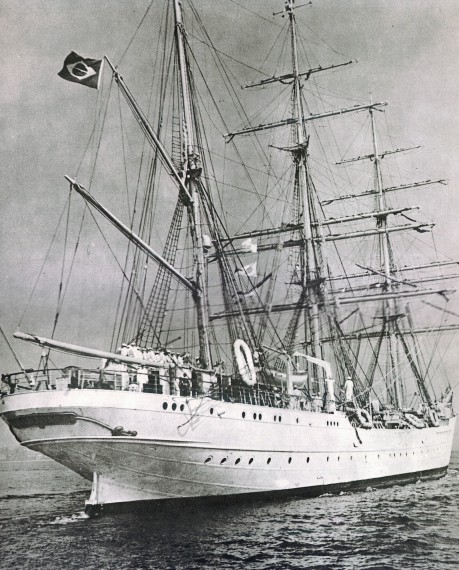 Naval ship of Brazil - Sail Boat